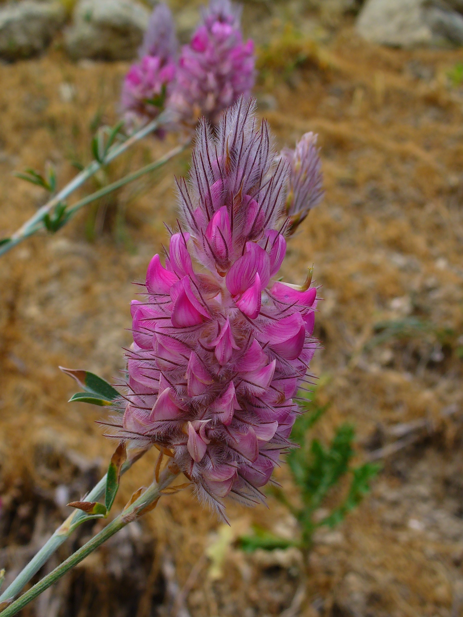 Ebenus cretica L., Cretan Ebony, inflorescence; Kalamafka, Crete, Greece.